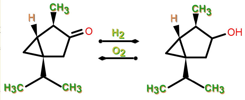 Thujanol synthesis from thujone and vice-versa